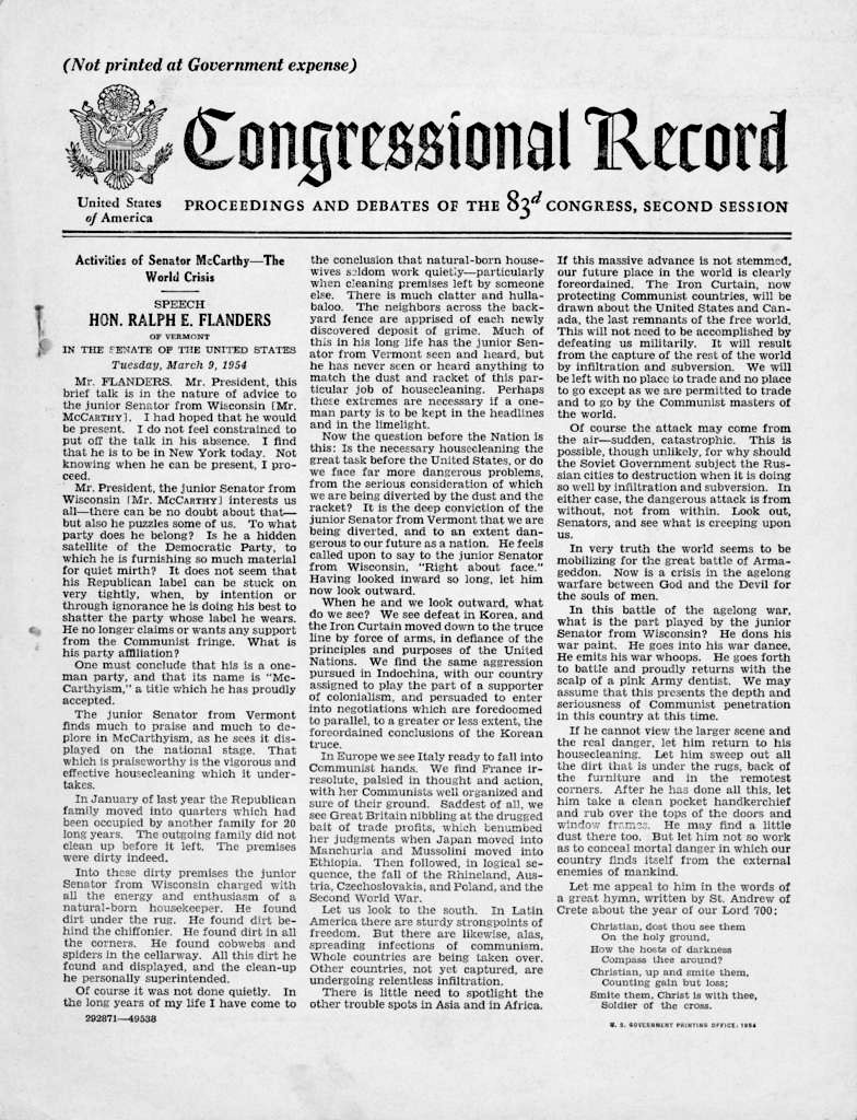 Photocopy of Sen. Ralph Flanders March 3, 1954 Senate speech, criticizing Sen. McCarthy's approach to fighting communism.